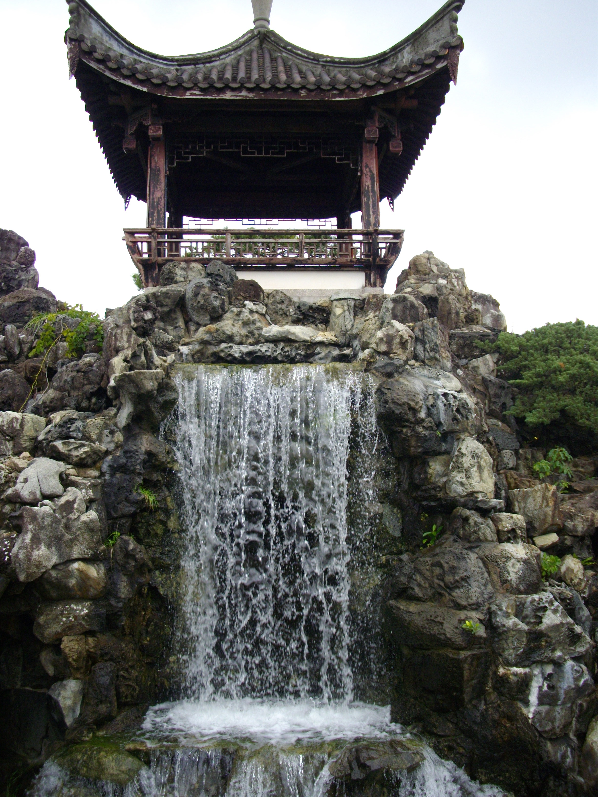 Waterfall at Fukushūen (福州園) in Naha, Okinawa.